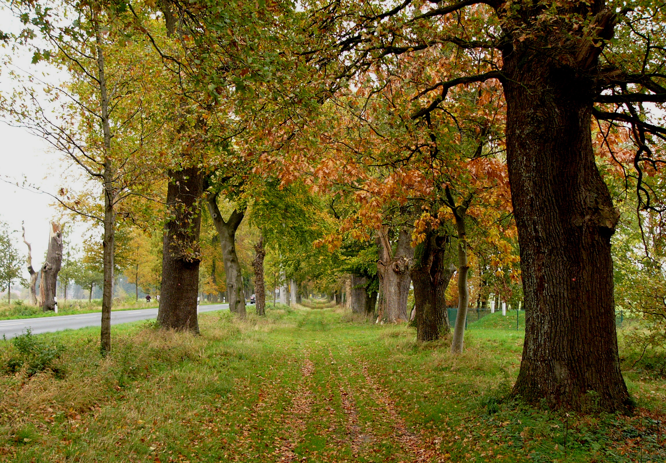 Fürstenallee near Oesterholz-Haustenbeck